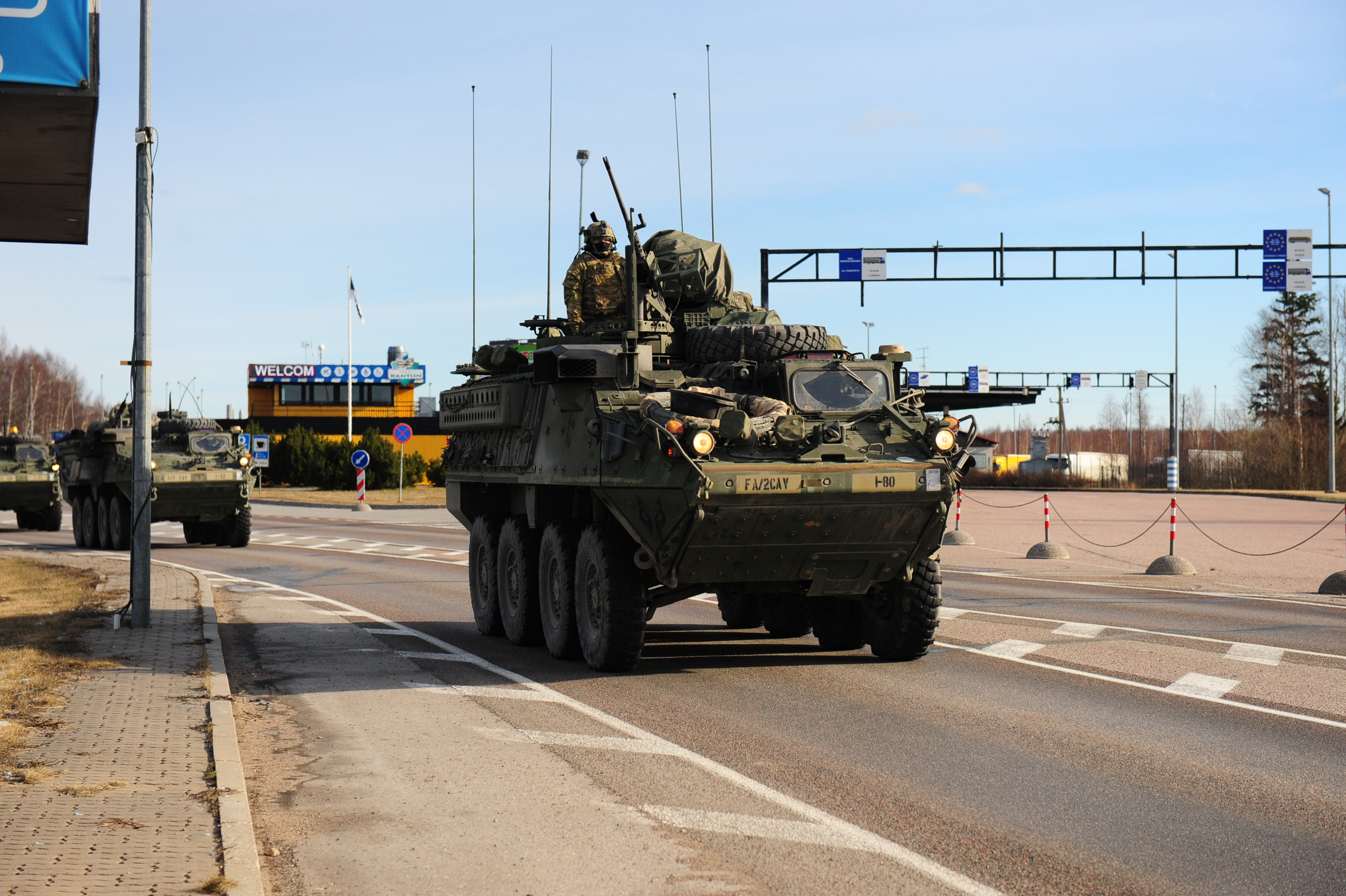 The road march, known as “Dragoon Ride” that 3rd Squadron, 2nd Cavalry Regiment will conduct is the capstone event of their latest participation in Operation Atlantic Resolve (OAR). As part of their OAR mission, the squadron has spent the last few months living and training alongside allied forces in Estonia, Latvia, Lithuania, and Poland. Since Army Europe’s Land Forces OAR mission began in April 2014, it has focused on improving the ability of NATO allies to work and operate together. This road march is a demonstration of that improved ability. It will traverse more than 1,800 kilometers, cross five allied borders, and include the participation of each nation’s armed forces as the convoys travel across each country. For those participating in it, Dragoon Ride is a unique opportunity. Soldiers and their leaders will have numerous opportunities to engage with local communities along the route and deepen their appreciation for the cultural diversity within the alliance. It will also allow units to test their maintenance and leadership capabilities while simultaneously providing a highly-visible demonstration of our commitment to our NATO allies, and the ability of alliance member-states to work in close cooperation to allow military forces to move freely across allied borders.